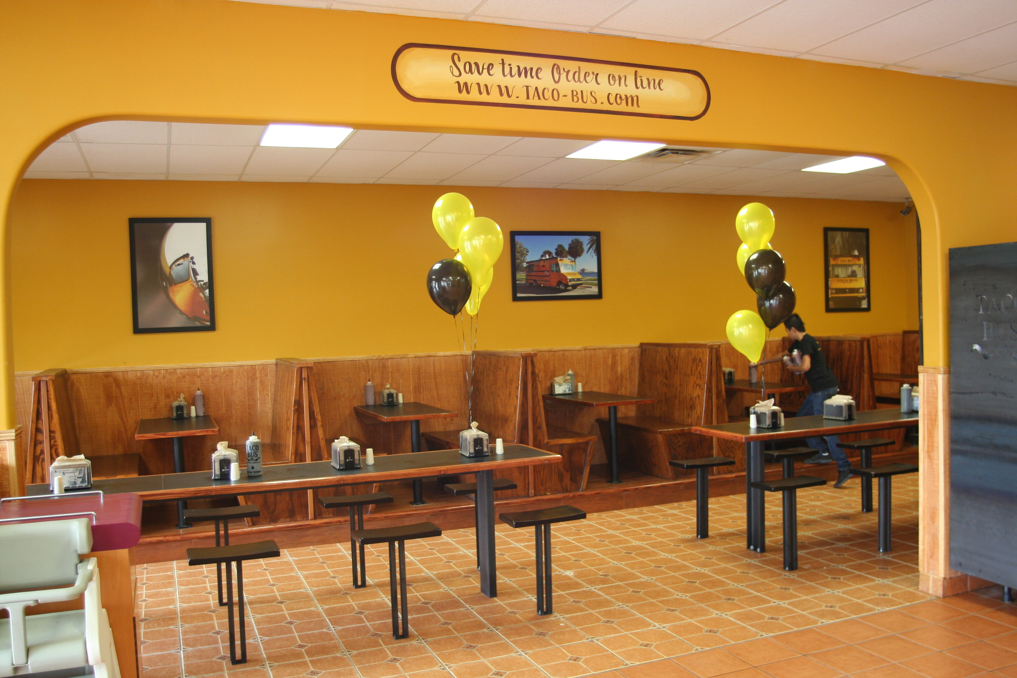 The remodeled interior of Taco Bus USF